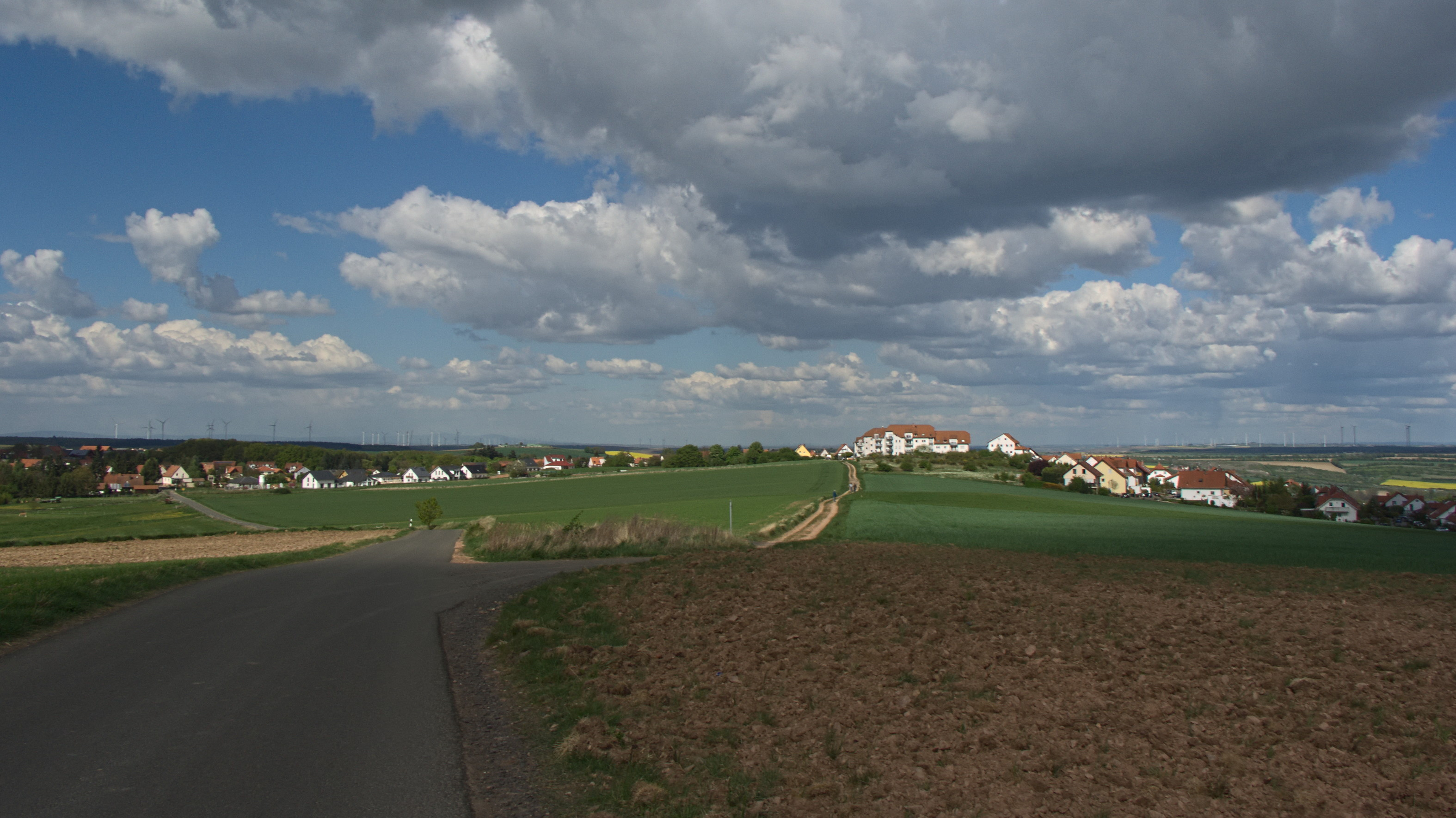 Scenic overlook from the south west of the districts Haide (left) and Kupferberg (right) of the city Kirchheimbolanden, Germany, April 2014